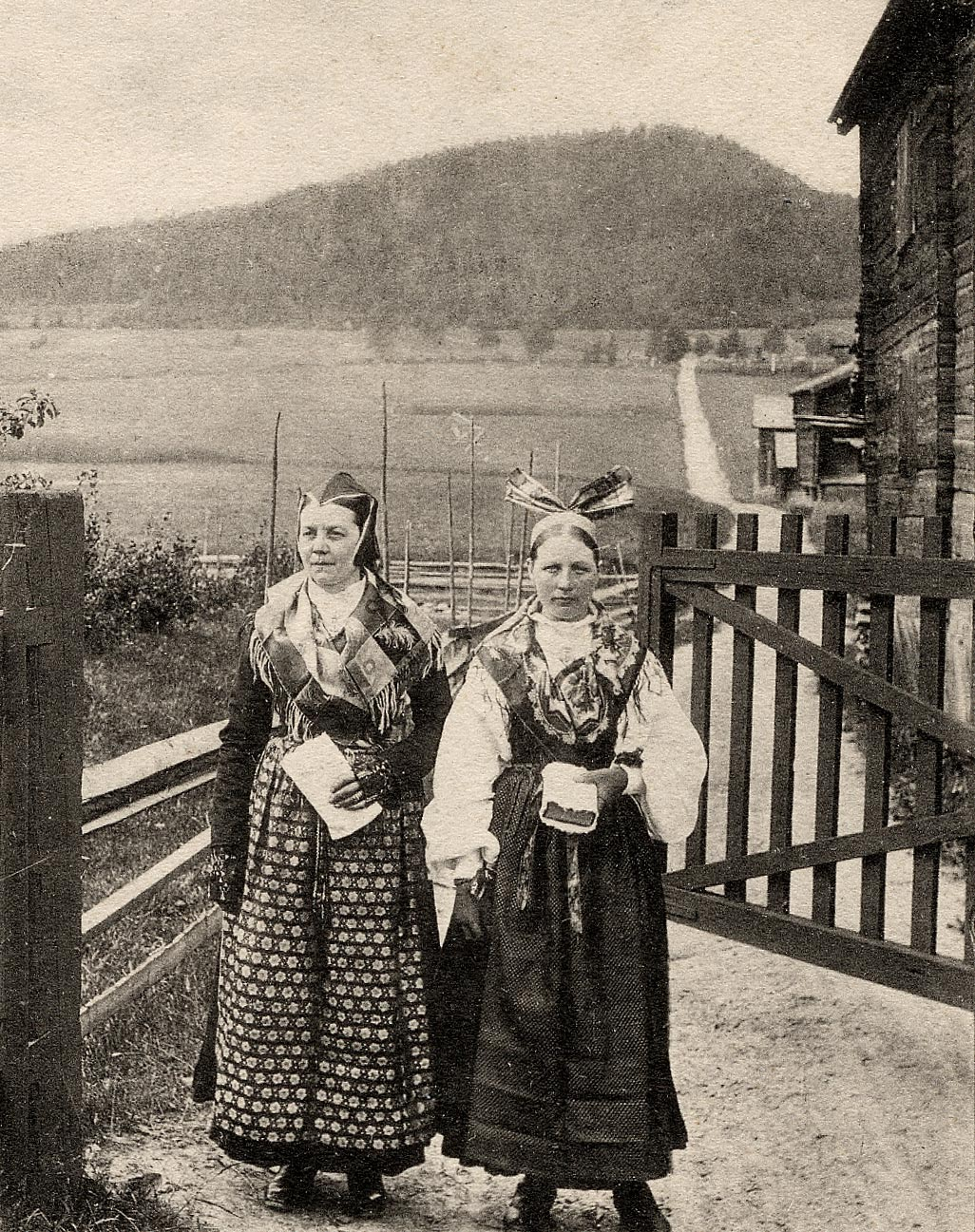 National custome from Järvsö, Hälsingland, Sweden about 1900